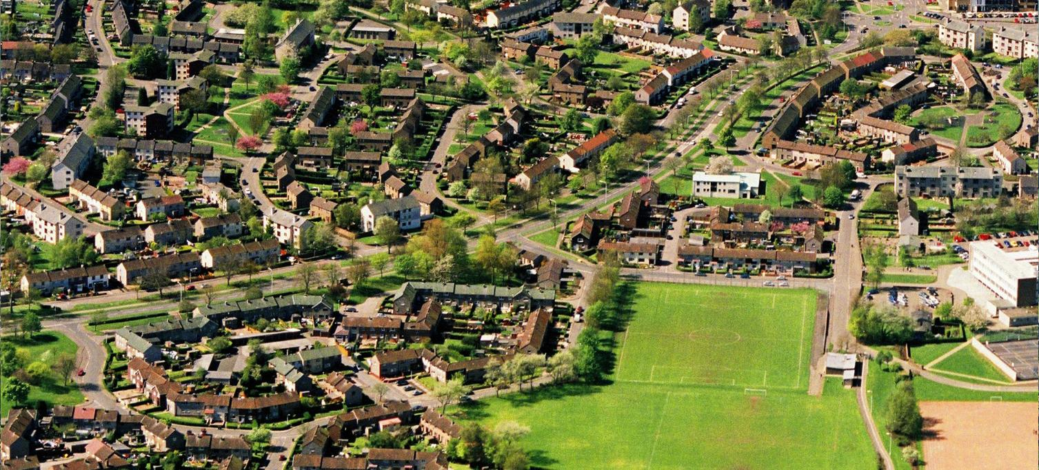 Looking across one of the central residential areas of Glenrothes, which displays many of the characteristics of a typical 1950s new town layout based upon Garden City principles.